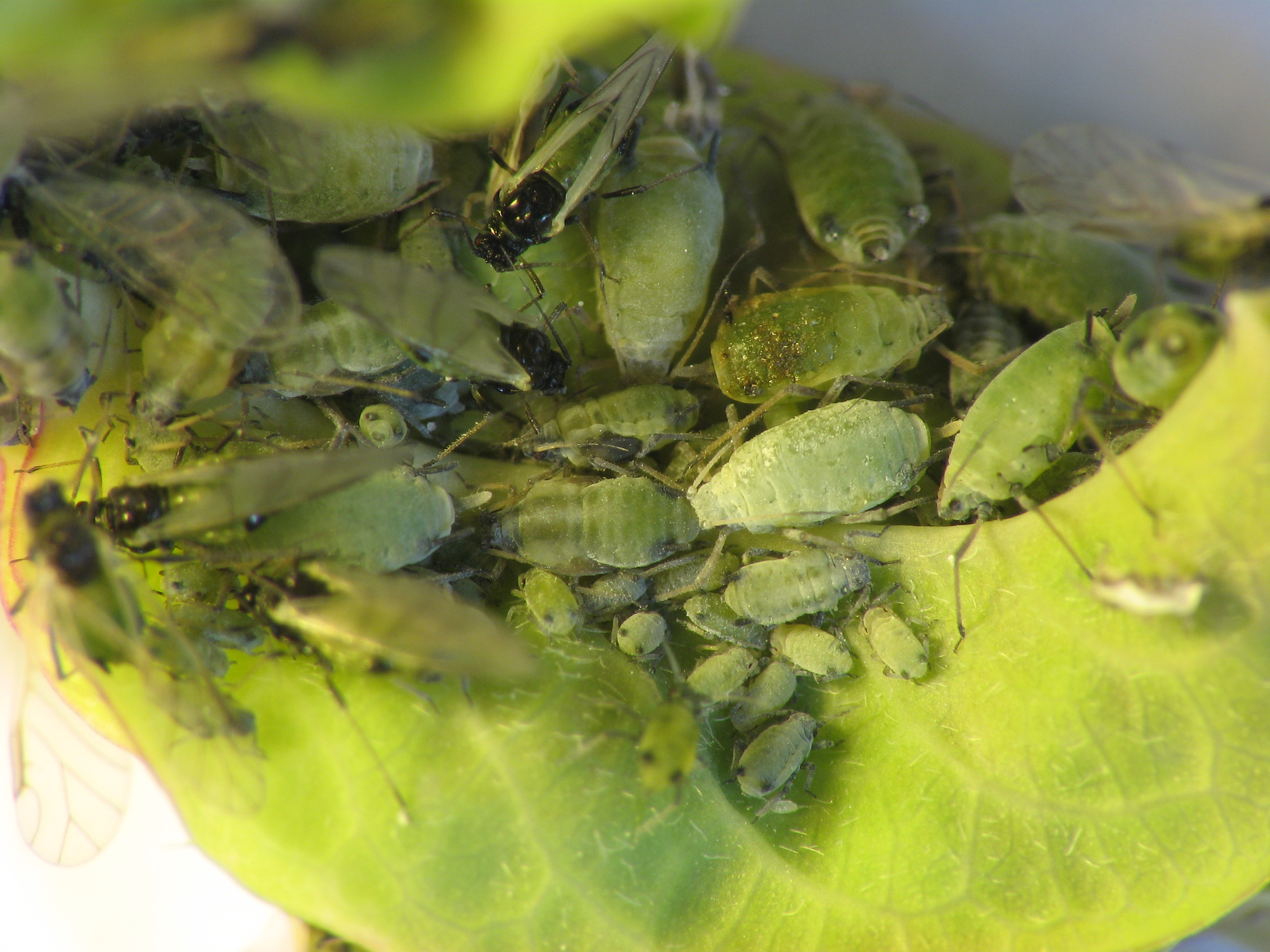 Aphids on trumpet honeysuckle, Hyadaphis, probably Hyadaphis tataricae, adults and nymphs. Churchville Nature Center, Bucks County, Pennsylvania, USA.